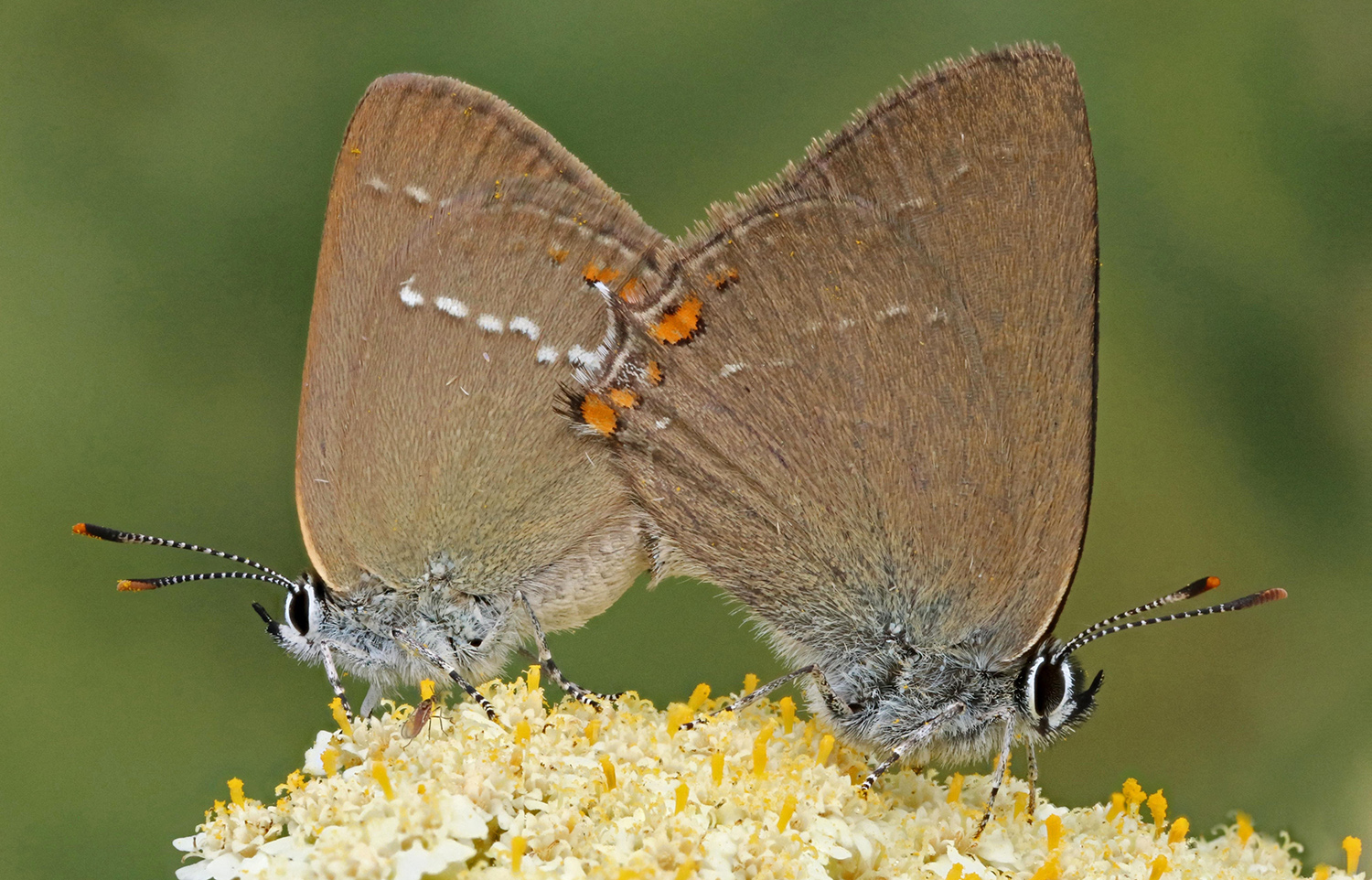 Satyrium acaciae, Sloe Hairstreaks, Arda River, Bulgaria, June 2015